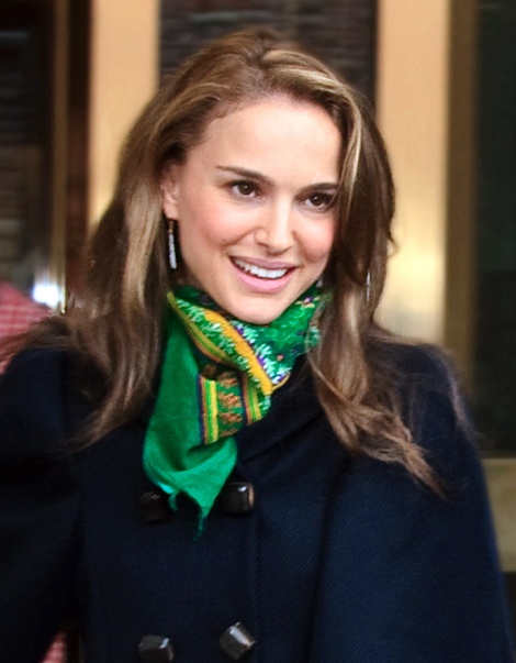 Natalie Portman at the 2009 Toronto International Film Festival.